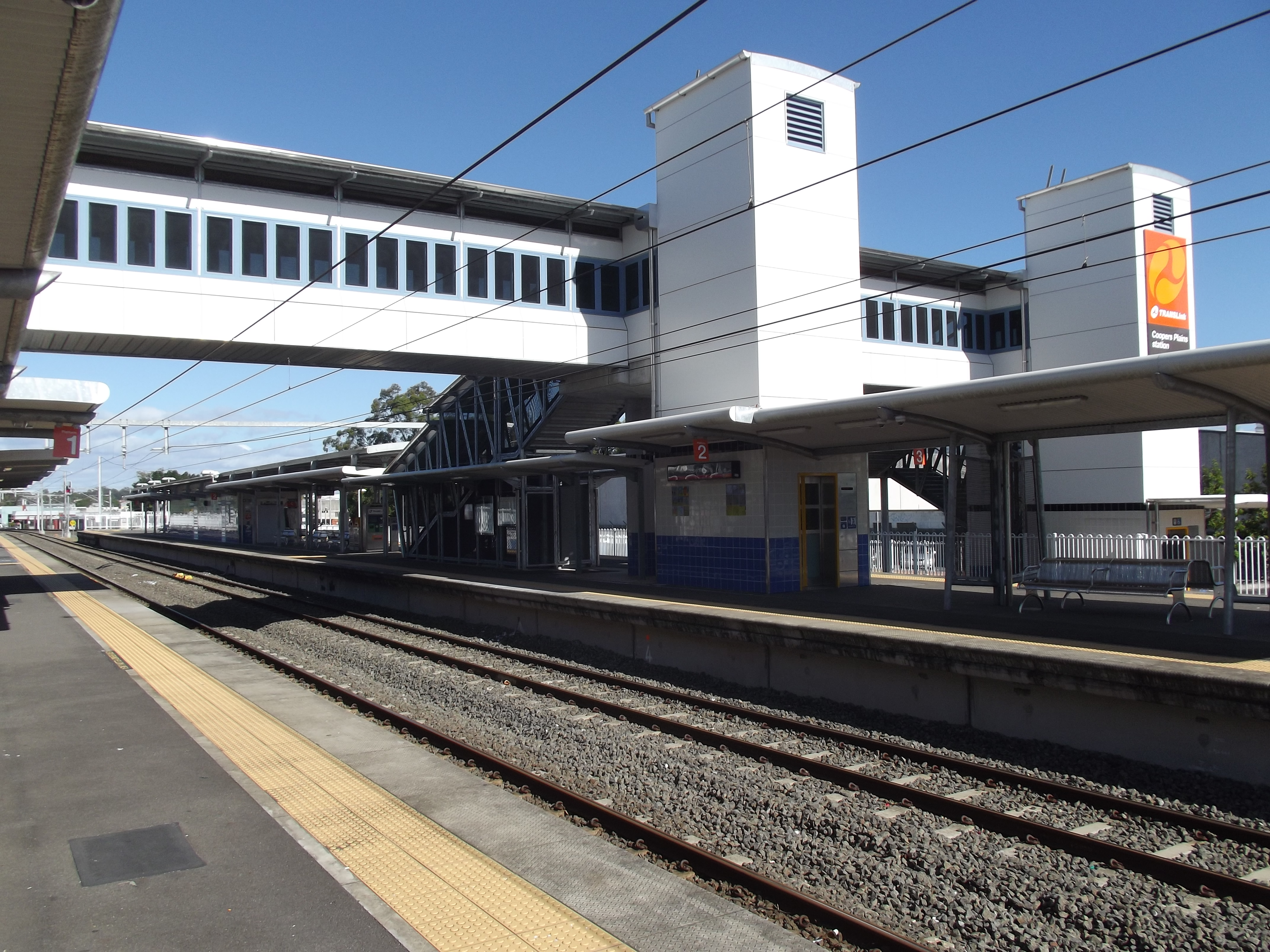 A photo of the Coopers Plains railway station, operated by TransLink, located in Brisbane, Queensland.